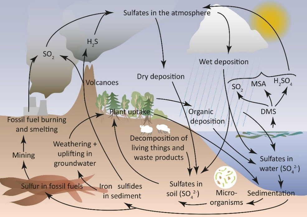 Schematic figure of the sulfur cycle.